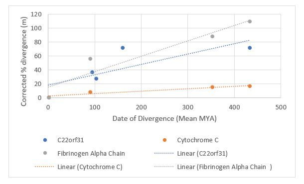 Corrected percent divergence was calculated using molecular clock equations and percent identity measurements of orthologs from NCBI Blastp. Date of divergence for each protein ortholog was found using TimeTree: The Timescale of Life website.